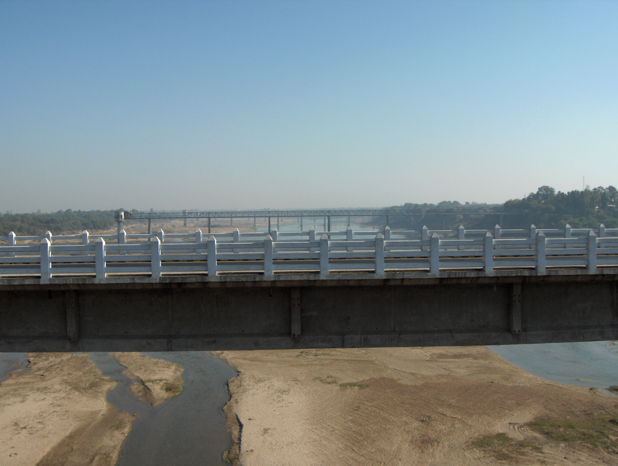 Mahi River near Vadodara, India Picture taken by me, Nichalp on 26-Jan-06